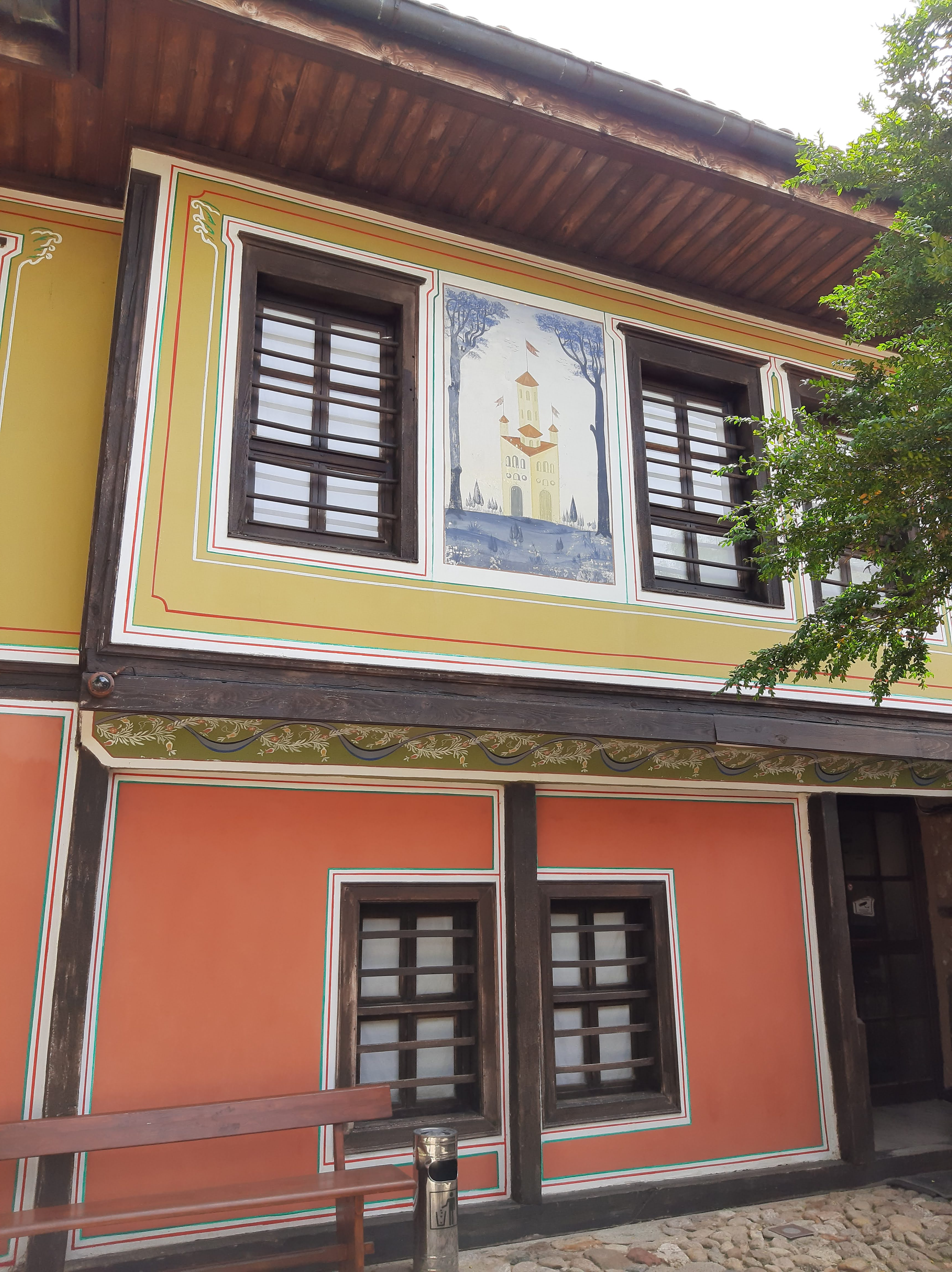 Tuteva House in Panagyurishte, Bulgaria